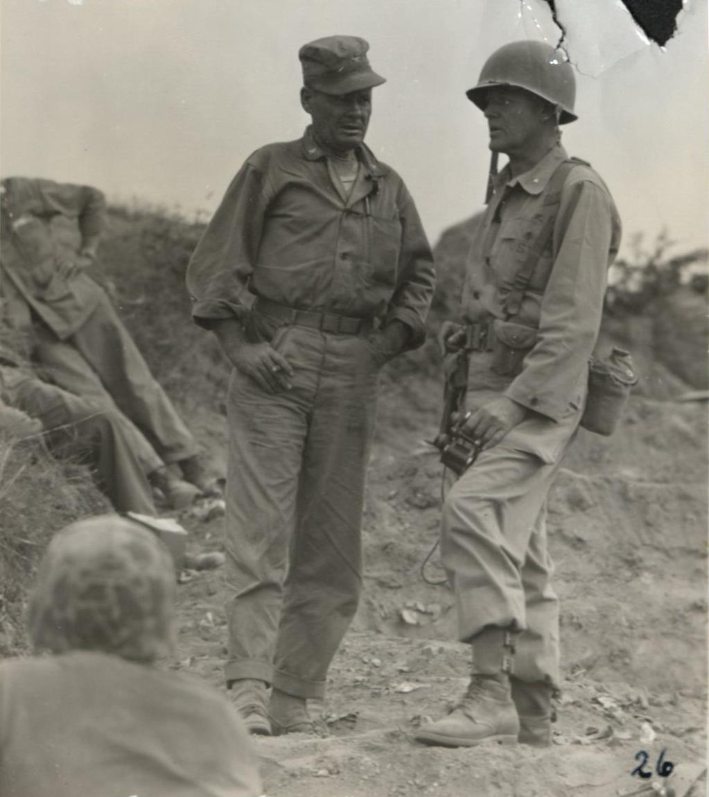 "At CP of 1st Marines, 25 September. Left to right: Col. Lewis B. Puller, CO 1st Marines, and Brig. General Edward A. Craig, Assistant Division Commander, 1st Marines." From the Oliver P. Smith Collection (COLL/213), Marine Corps Archives & Special Collections OFFICIAL USMC PHOTOGRAPH